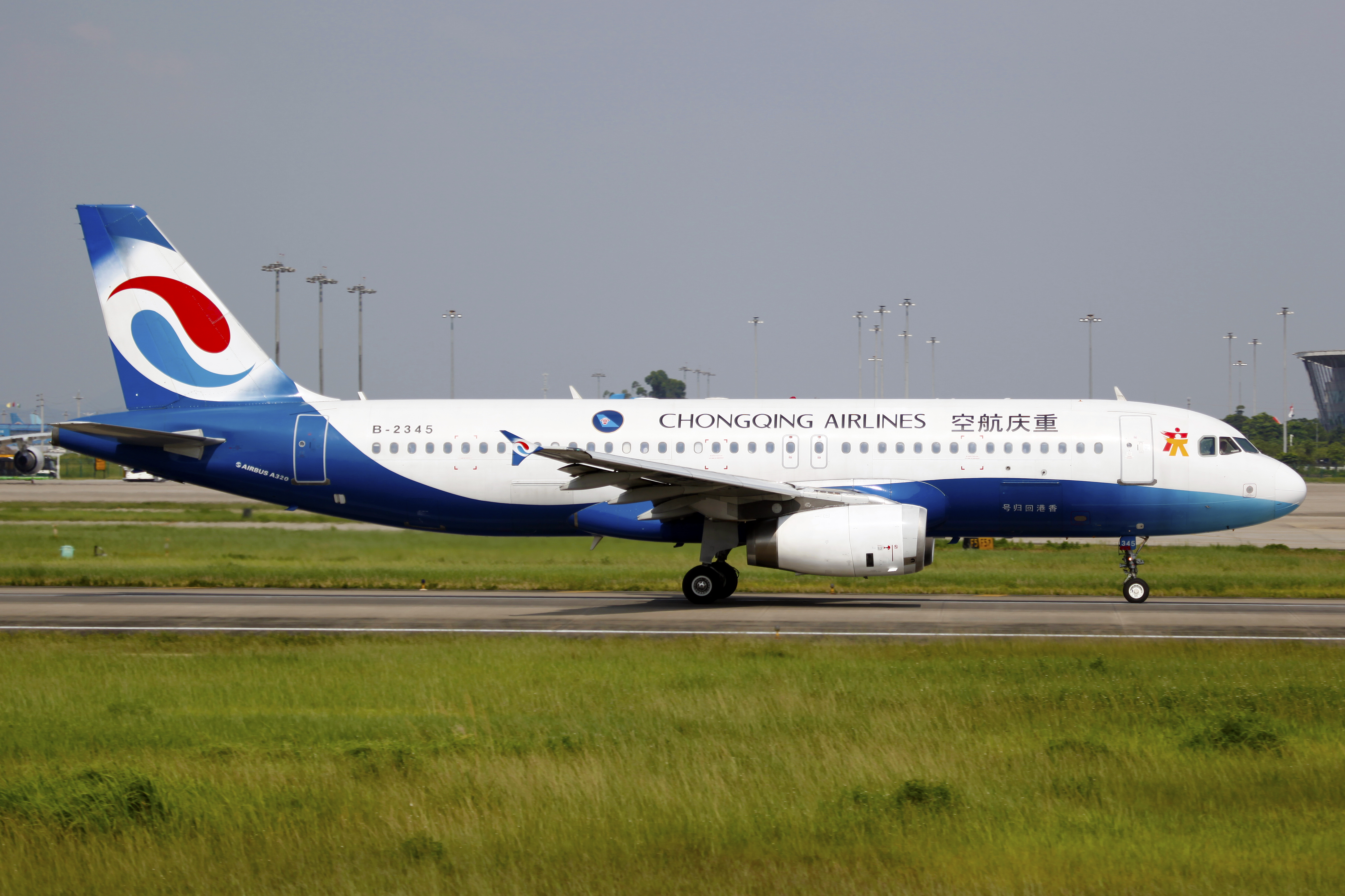 B-2345 | Chongqing Airlines | Airbus A320-233 | Guangzhou Baiyun International Airport [CAN]